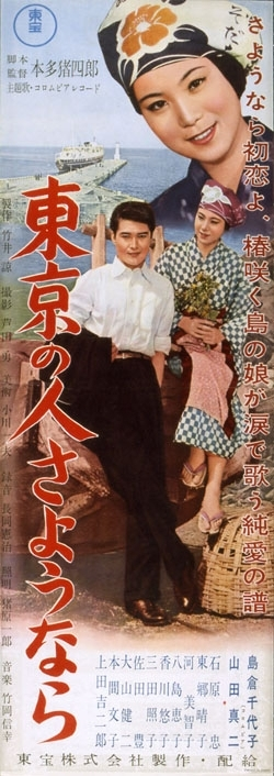 1956 Japanese movie poster for 1956 Japanese film Tokyo no hito sayonara